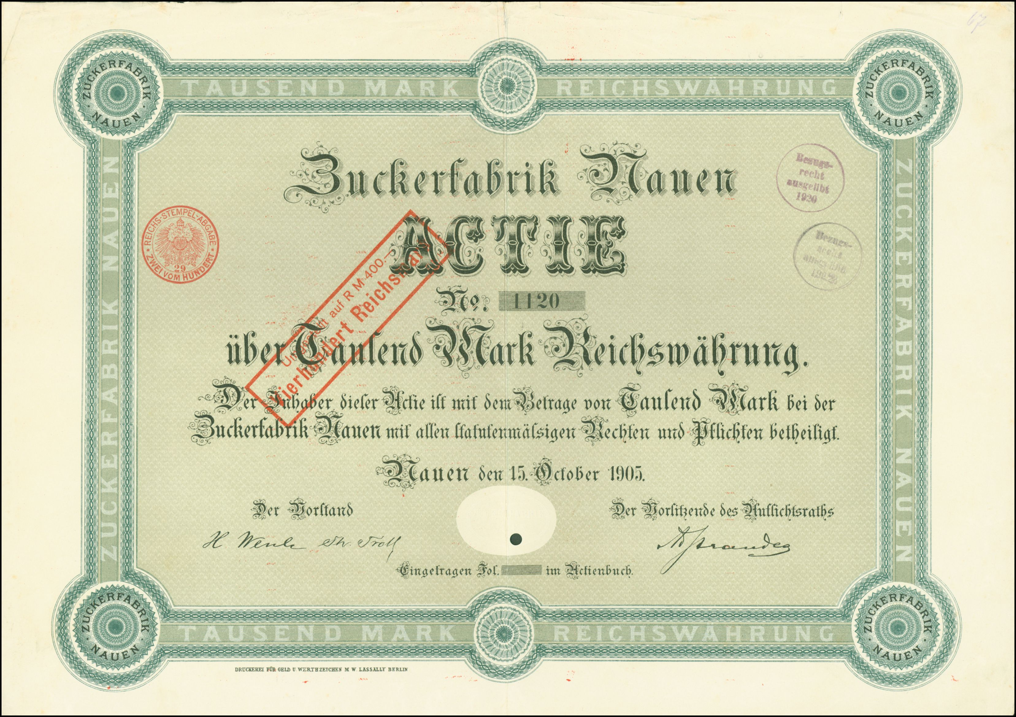 Share of the Zuckerfabrik Nauen, issued 15. October 1905